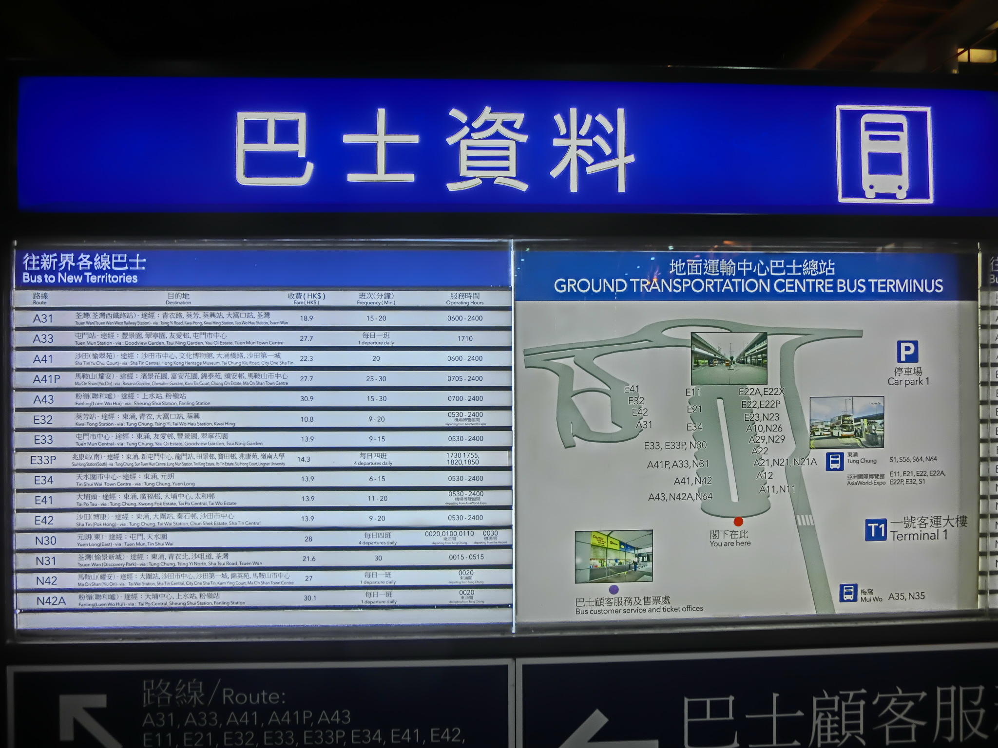 香港國際機場, Hong Kong International Airport, Chek Lap Kok, Hong Kong